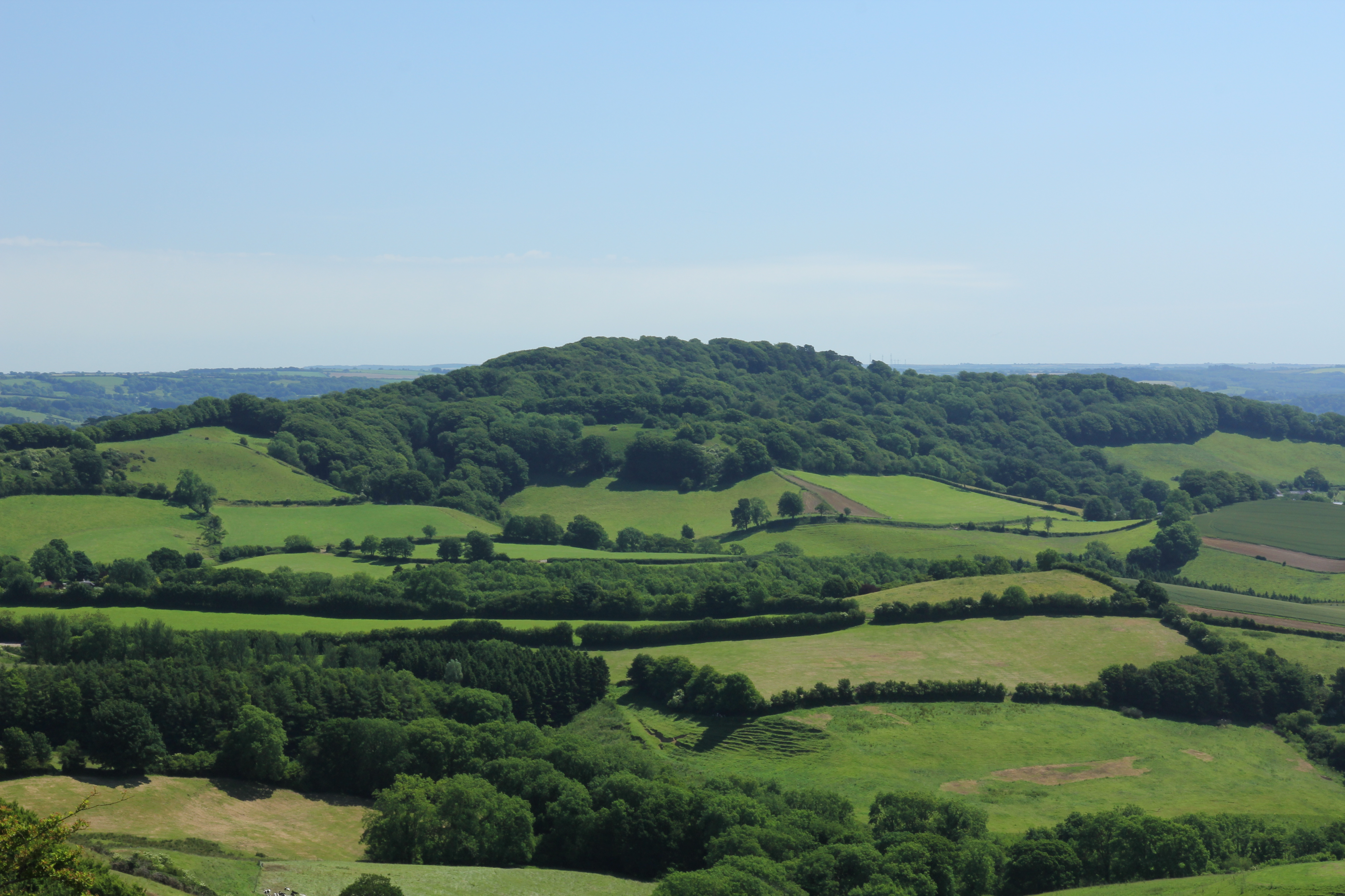 Lewesdon Hill seen from the direction of Pilsdon Pen